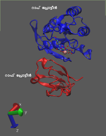 A protein data bank file (PDB code : 1C1Y) visualized using VMD software.